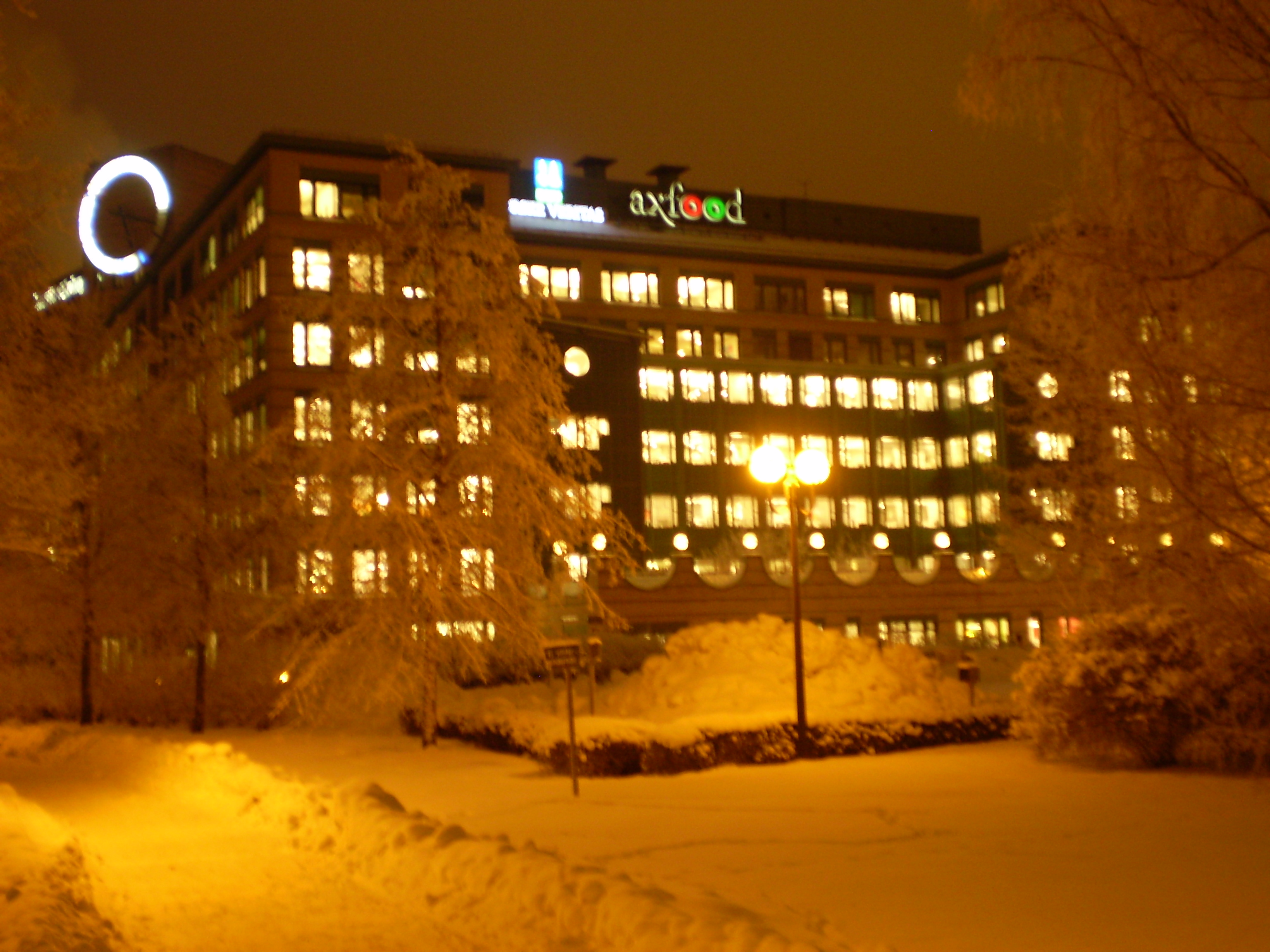 The headquarters of Axfood AB in Vreten in Solna at winter time